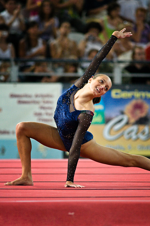 Federica Macrì at the Mediterraneo Gym Cup July 5th 2008 in Rome